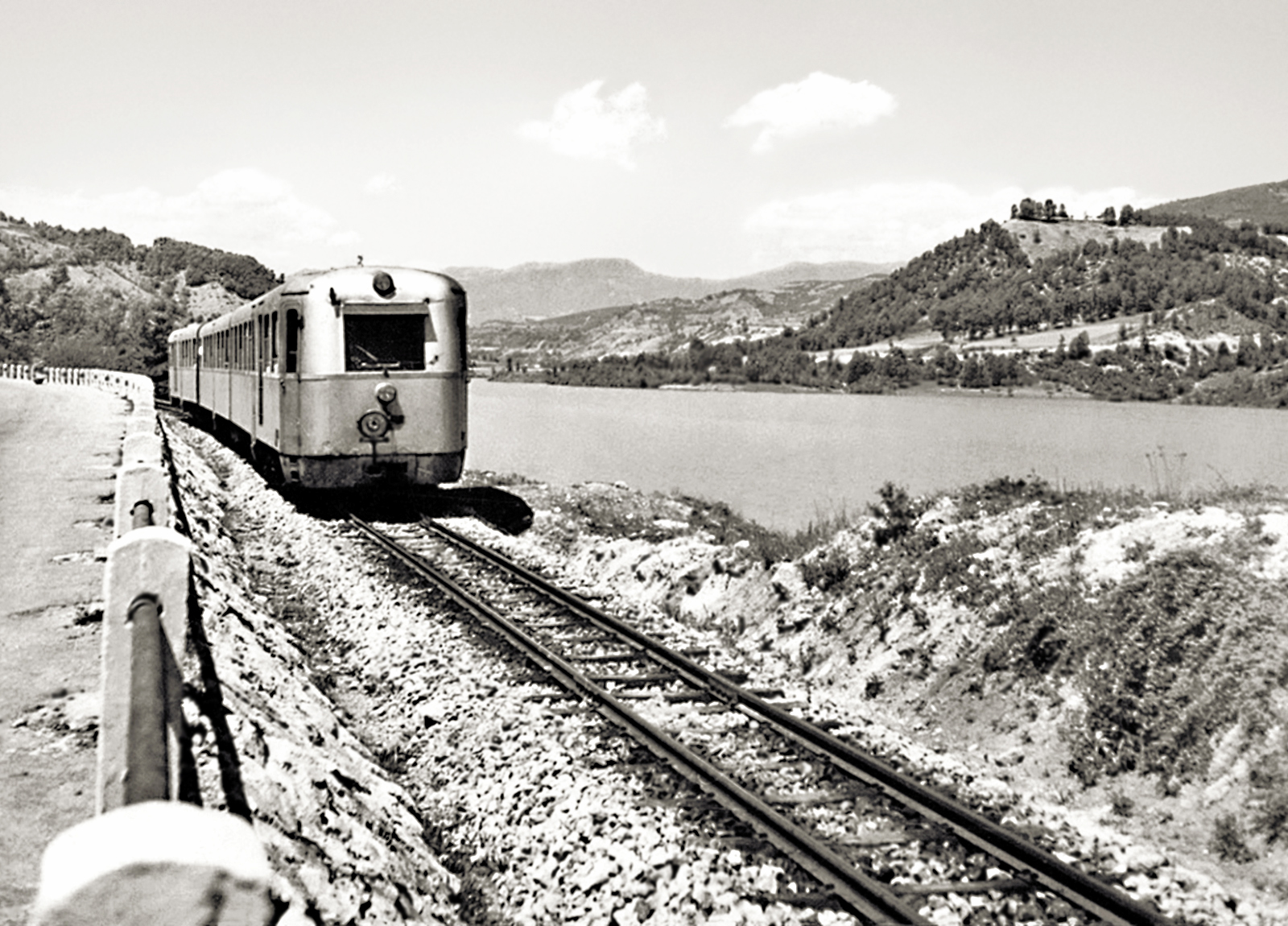 A southbound DMU-801 train driving away along the south bank of the Jablanica Reservoir